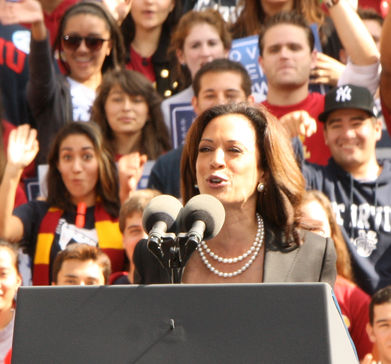 Democratic Rally held at USC's Alumni Park on October 22, 2010. (Photo by: Shotgun Spratling)